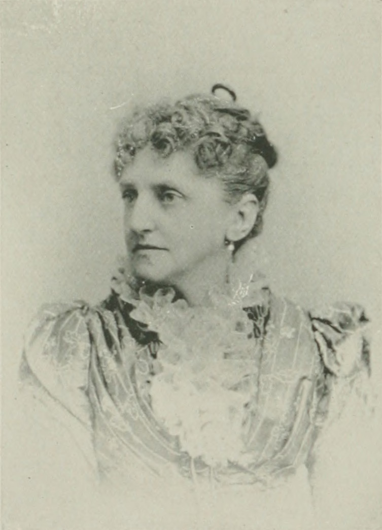 a woman of the century